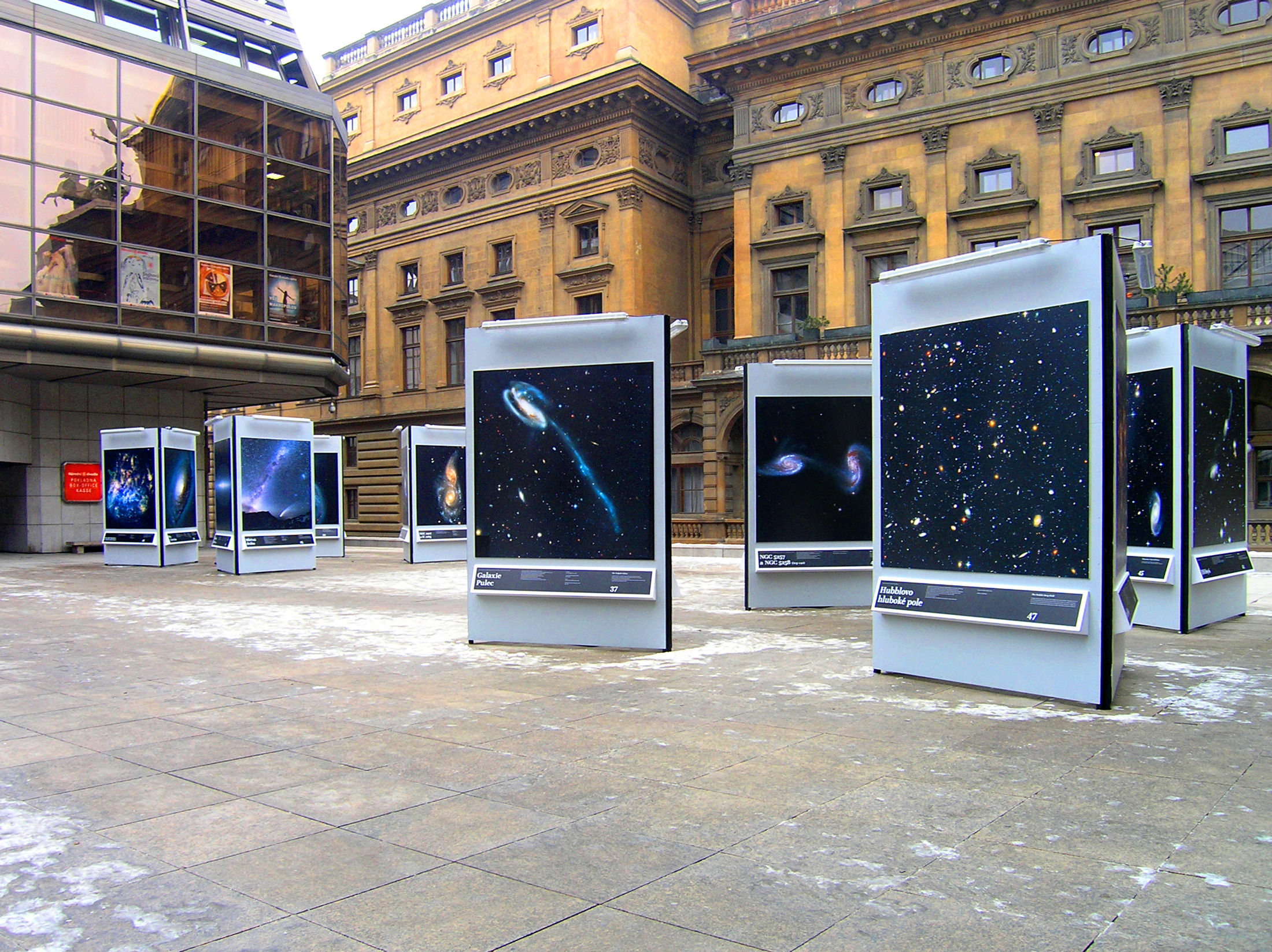 Outdoor exhibition The Universe – Yours to Discover near National Theatre, Prague, Czech Republic